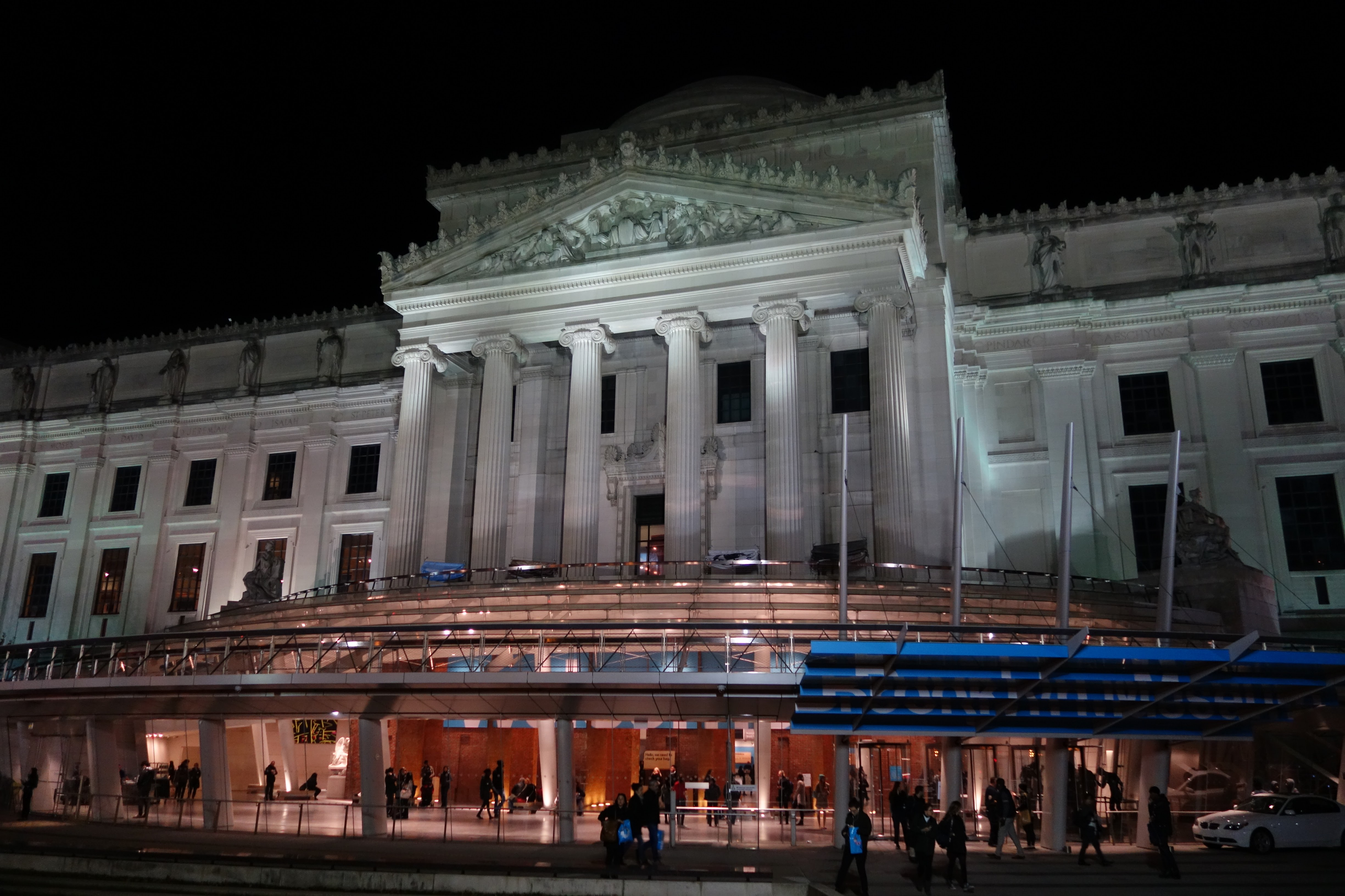 View of the Brooklyn Museum at Night in November 2015.